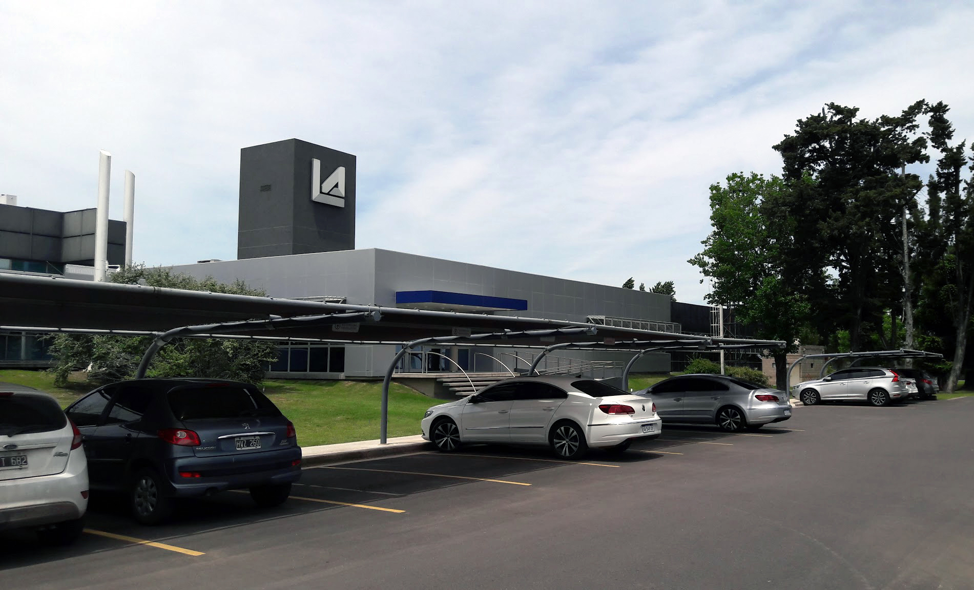 Argentine supermarket chain La Anonima headquarters in Ituzaingo, Argentina